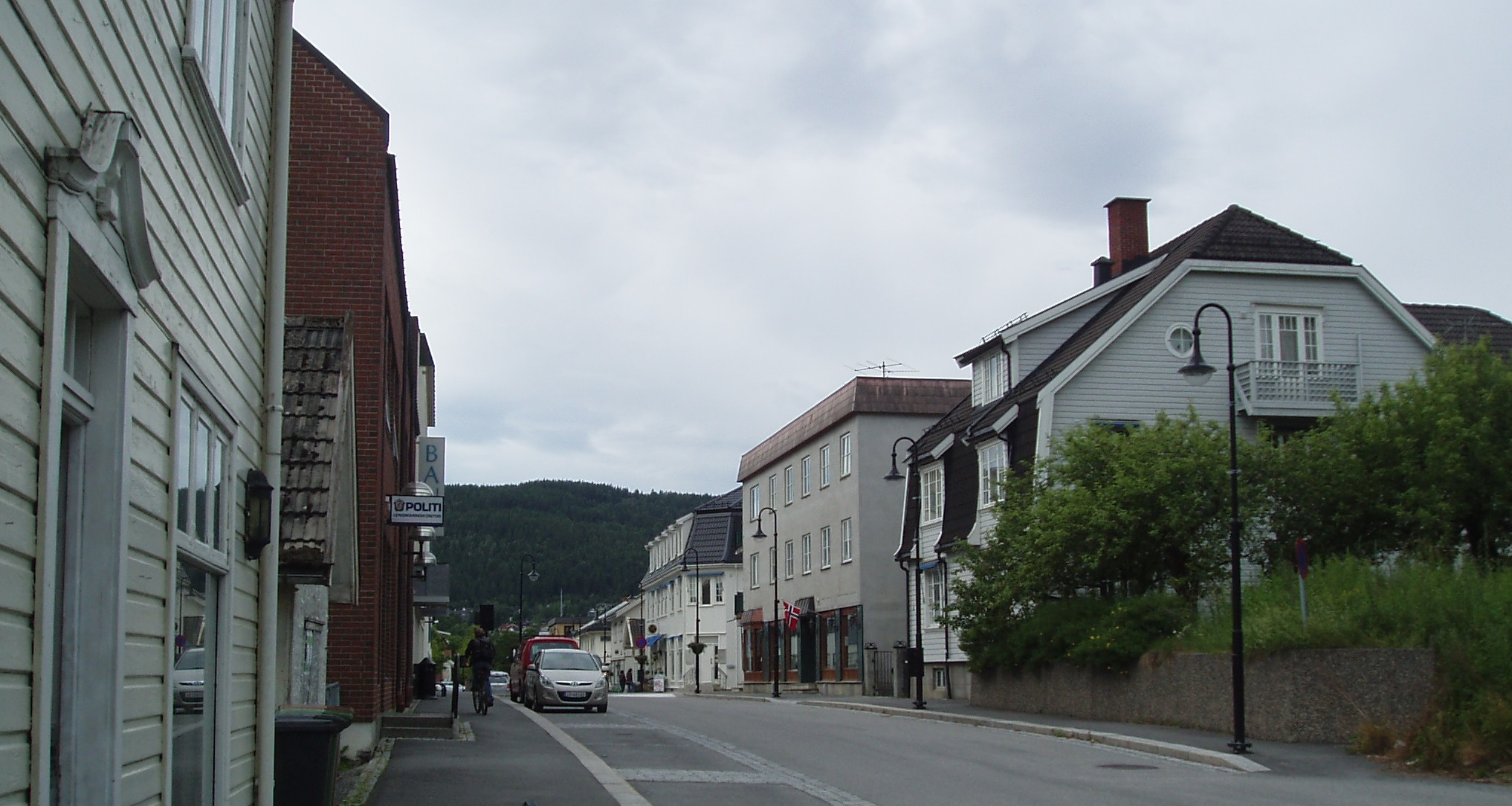 The village of Nesbakken in Jevnaker, South Norway